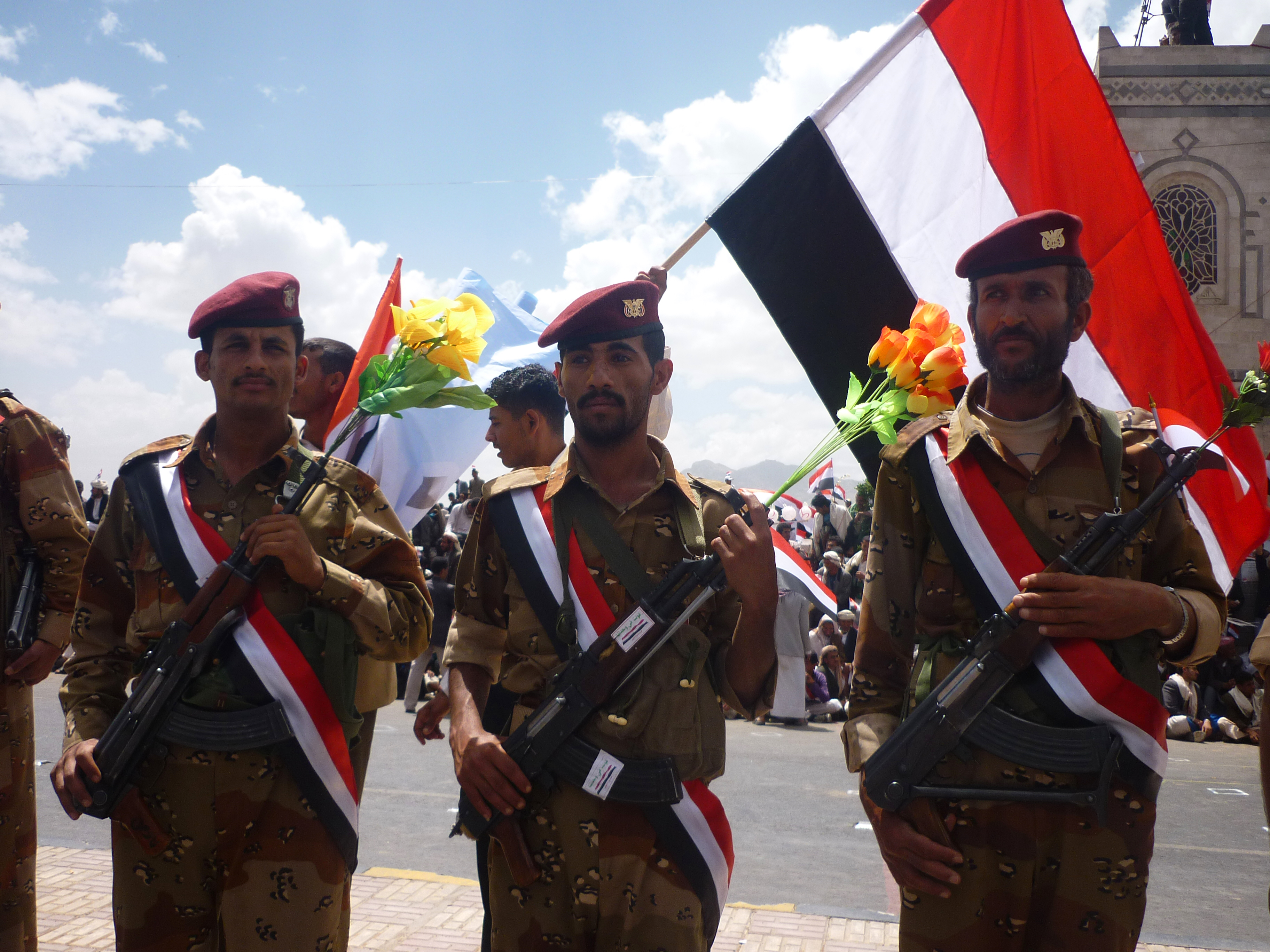 Yemeni soldiers from the 1st Armoured Division in 60st. , sanaa 22may 2011